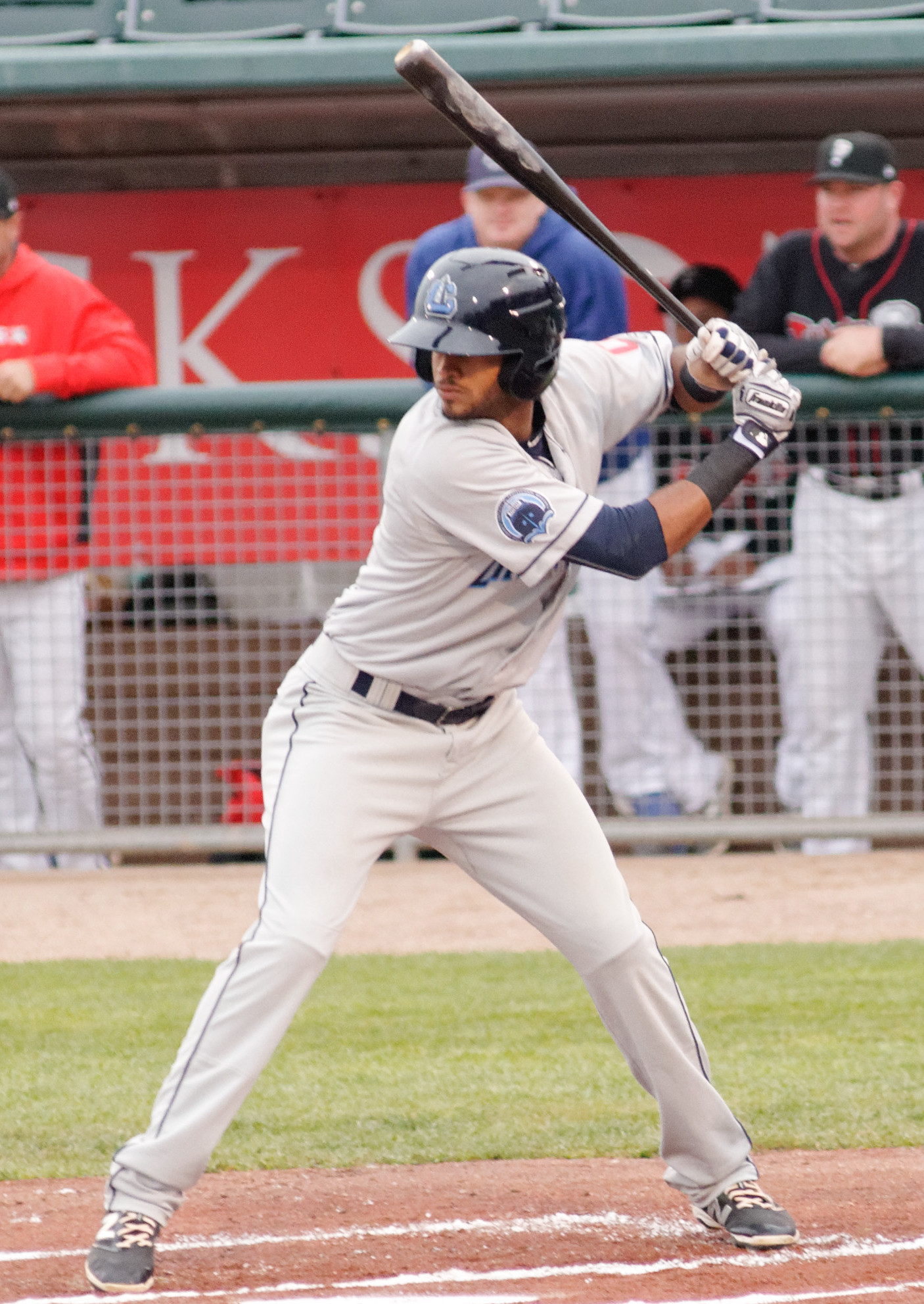 Willi Castro at bat for the Lake County Captains during a 2016 game against the Lansing Lugnuts at Cooley Law School Stadium in Lansing, Michigan.